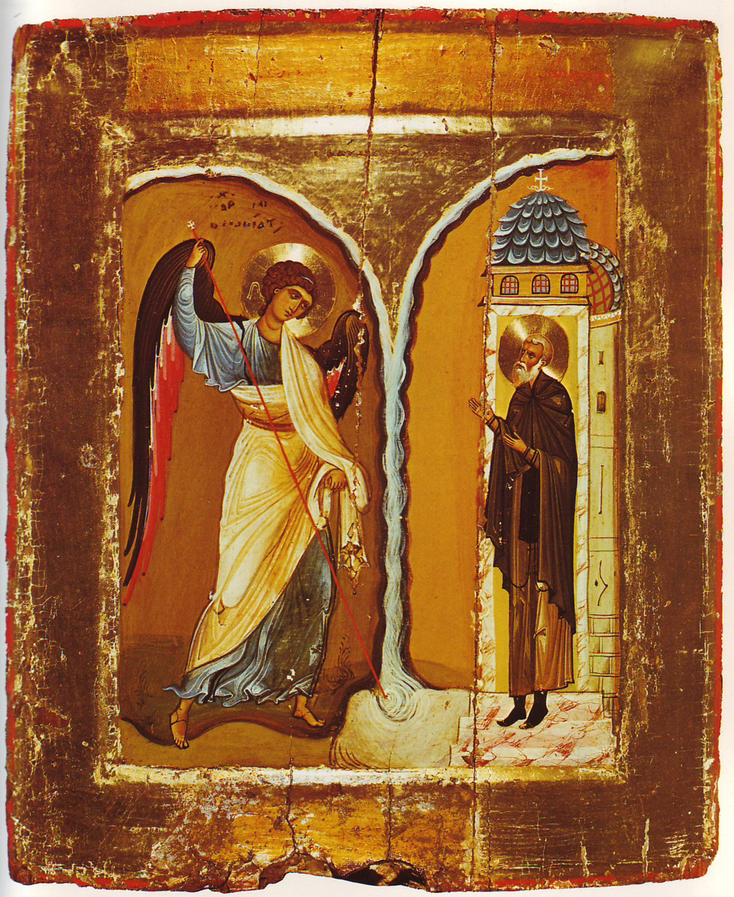 Archangel Michael and the monk Archippus at Chonae. Оrthodox icon, probably of constantinoplian origin. First half of the 12th century. 37.5 x 30.7 cm